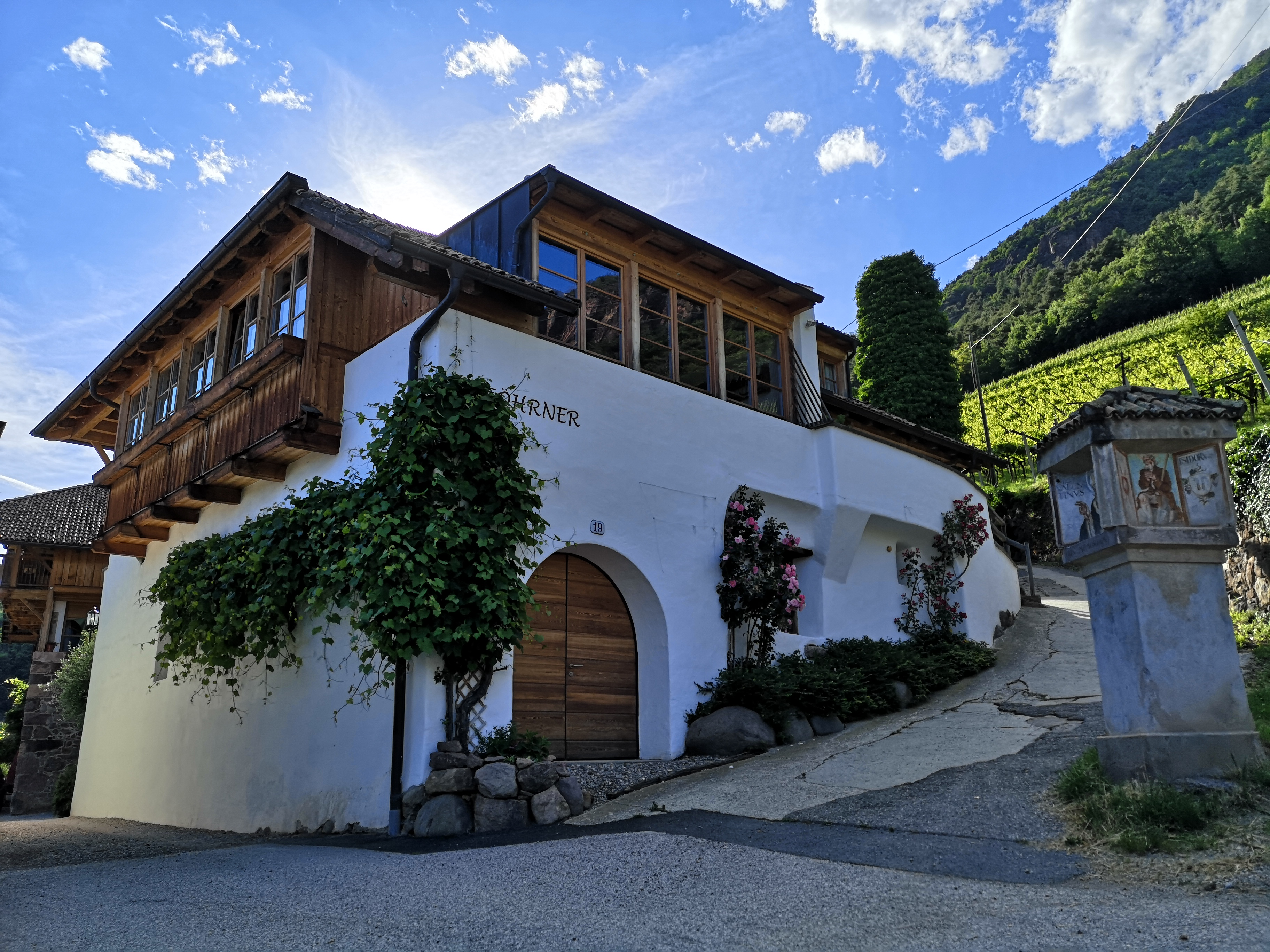 Föhrner farmhouse at the Guntschnaberg in Gries-Bozen